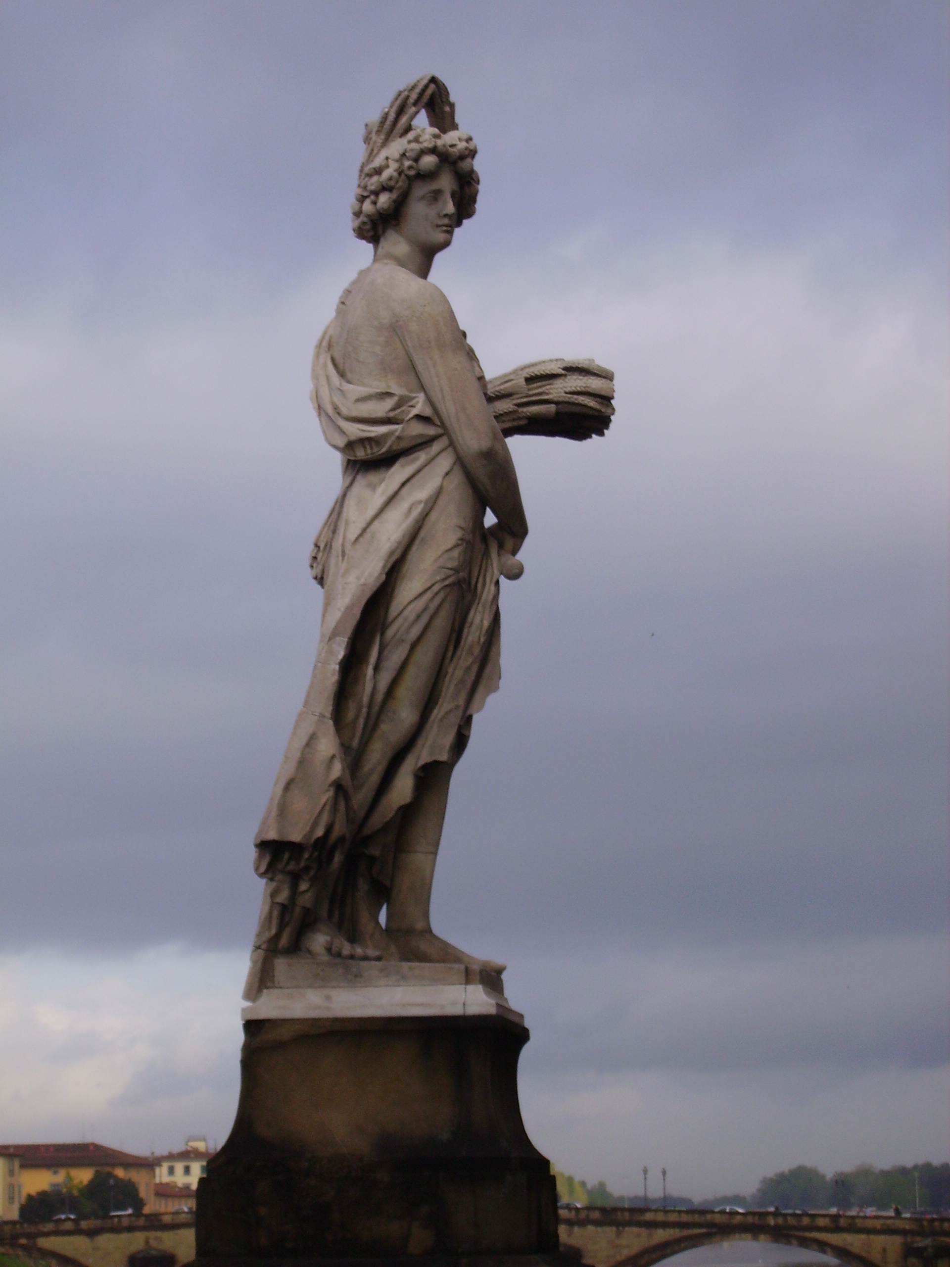 Allegory of summer at Ponte Santa Trìnita in Florence.